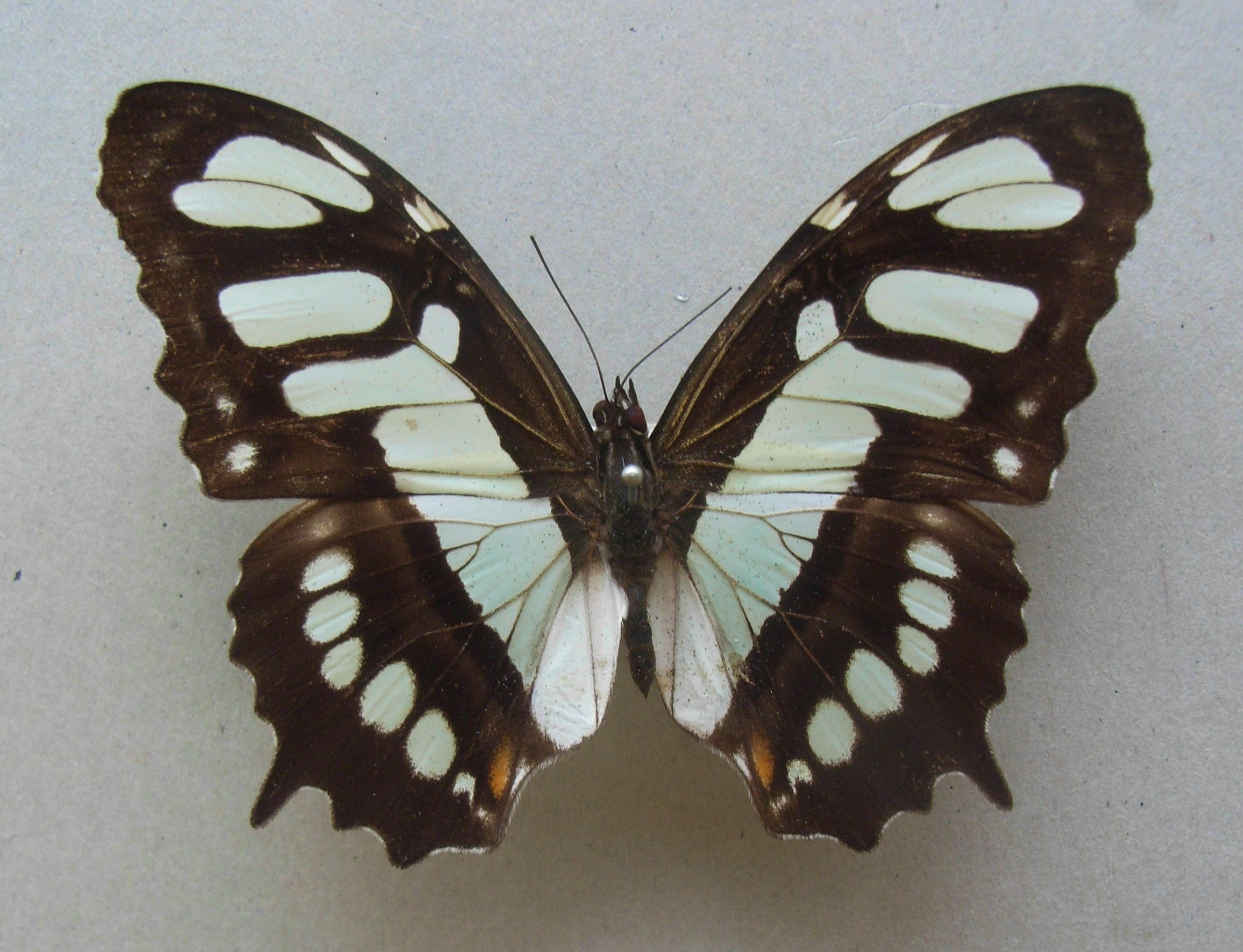 Siproeta steneles biplagiata